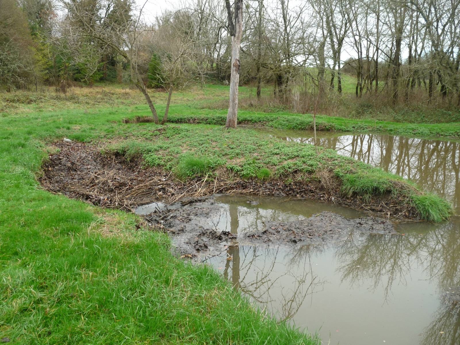 One of the main losses (ponor) of the Bandiat river at Bunzac in winter, Charente, SW France